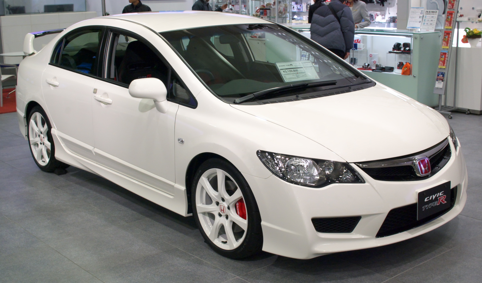 2007 Honda FD2 Civic TypeR for JDM photographed in Honda Welcome Plaza (Minato, Tokyo)